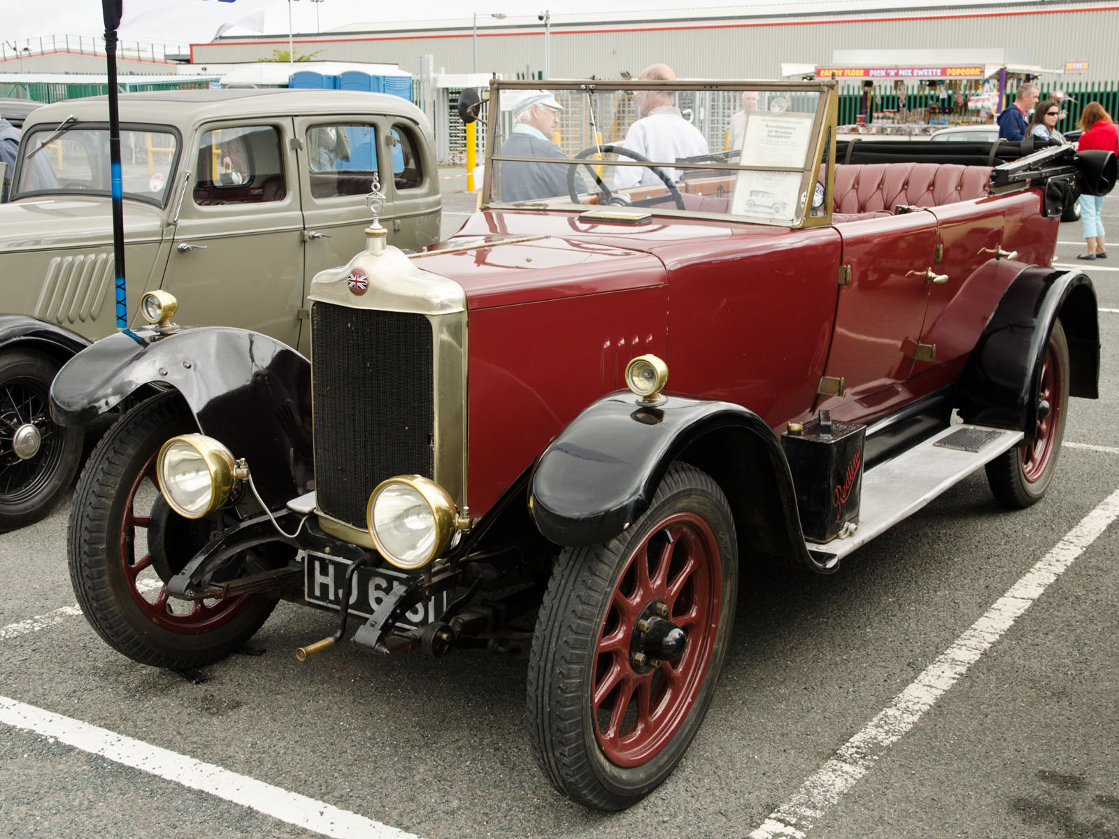 Standard 14 Stratford allweather tourer 1926sourceNorth Cheshire Classic Car Club at Ellsmere Port 11/08/2013